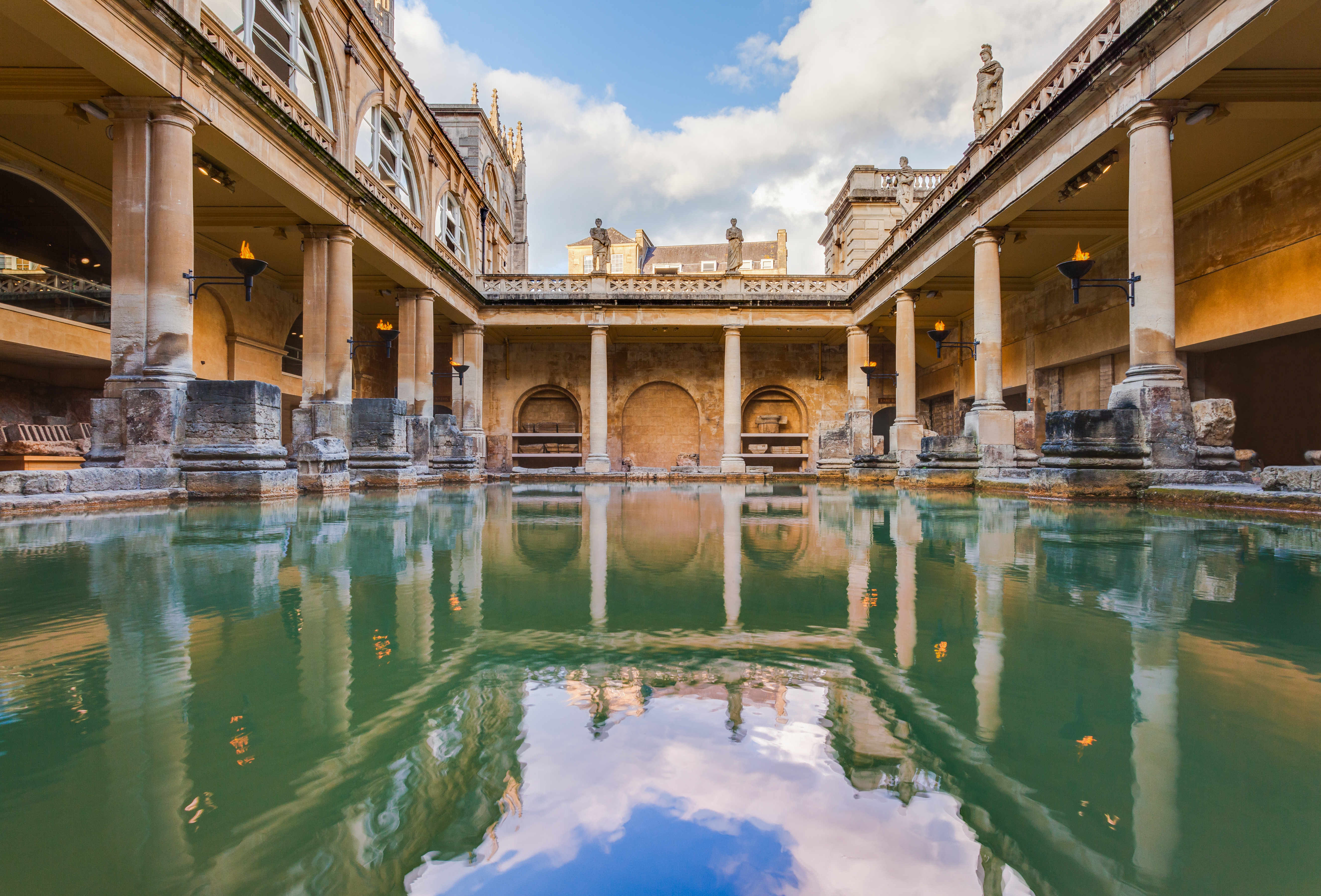 View of the Great Bath, part of the Roman Baths complex, a site of historical interest in the city of Bath, England. The baths, based on the local hot springs, were built during the Roman occupation of Britain and has become a major touristic site.